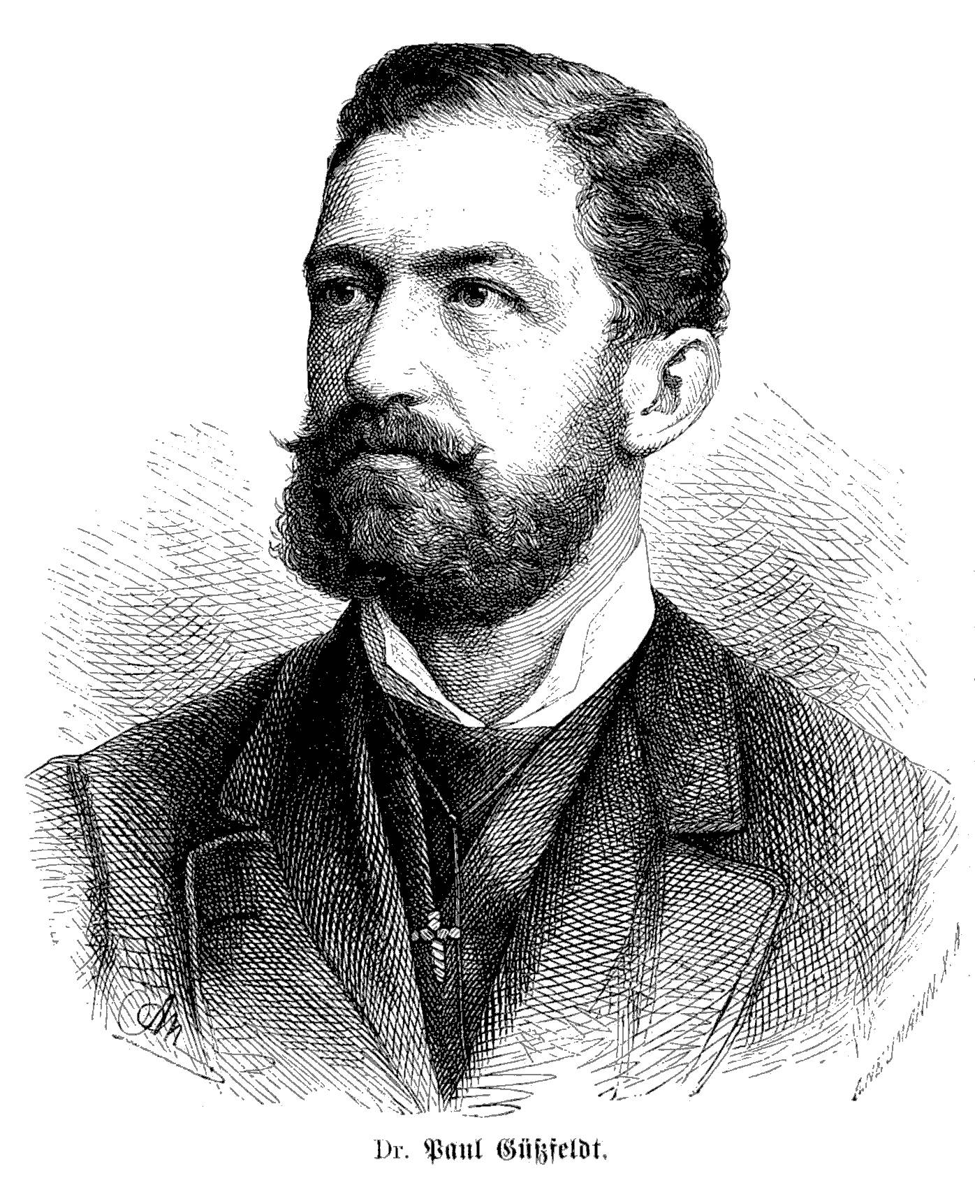 caption: "Dr. Paul Güßfeldt."